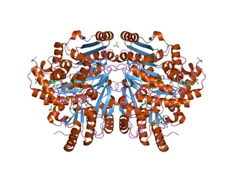 Cartoon representation of the molecular structure of protein registered with 1wve code.